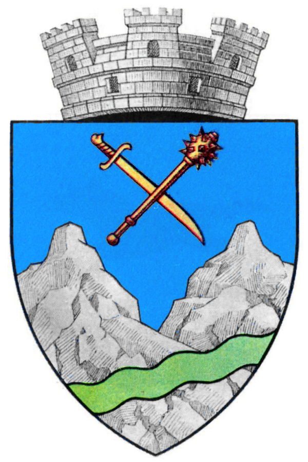 Interwar coat of arms of Predeal, Prahova County, Kingdom of Romania.